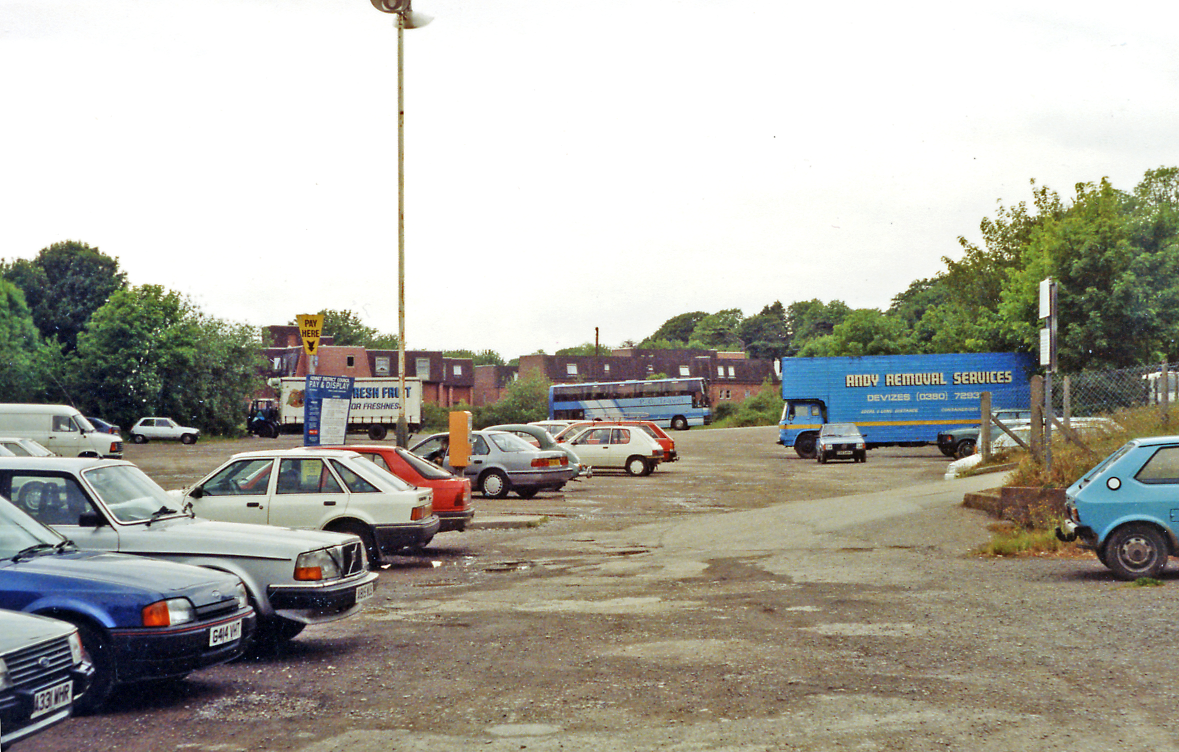 Site of Devizes station, 1991. View westward, towards Holt Junction, Bath and Bristol: ex-GWR (London - Reading) - Patney & Chirton - Holt Junction - Bath (- Bristol) line. The station nd the line between Patney and Holt were closed 18/4/66 - it is obvious why.